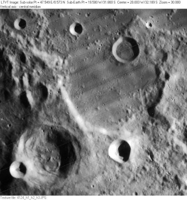 Weiss is the large enclosure to the upper right of center. The pie-pan shaped 17-km crater on its northeast floor is Weiss E. The deeply shadowed 14-km crater directly below Weiss is Cichus B, named for Cichus the 40-km crater in the lower left (with 11-km Cichus C on its southwest rim).